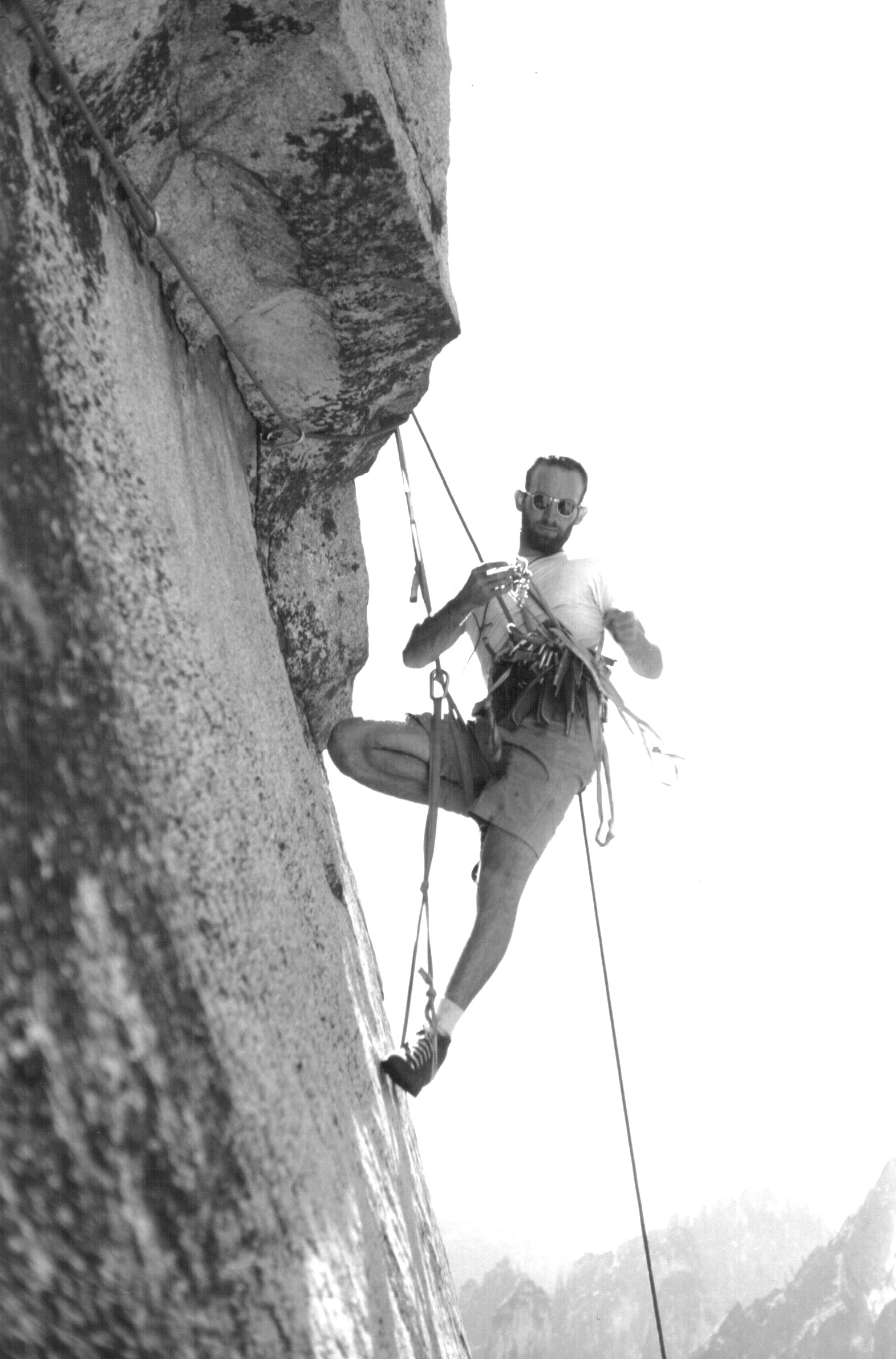 COOL AID, Royal Robbins climbs the third pitch of the Salathé Wall, El Capitan, Yosemite National Park, California, first ascent by Robbins, Pratt and Frost, in 9½ days of September 1961.